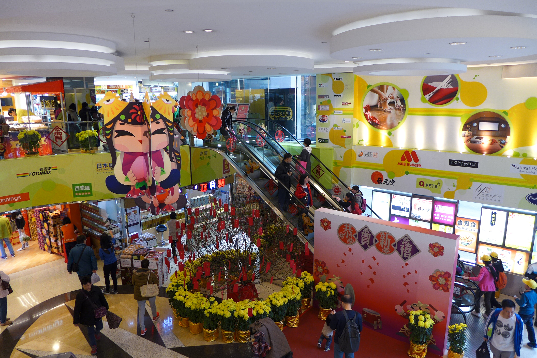 Fitfort Entrance atrium